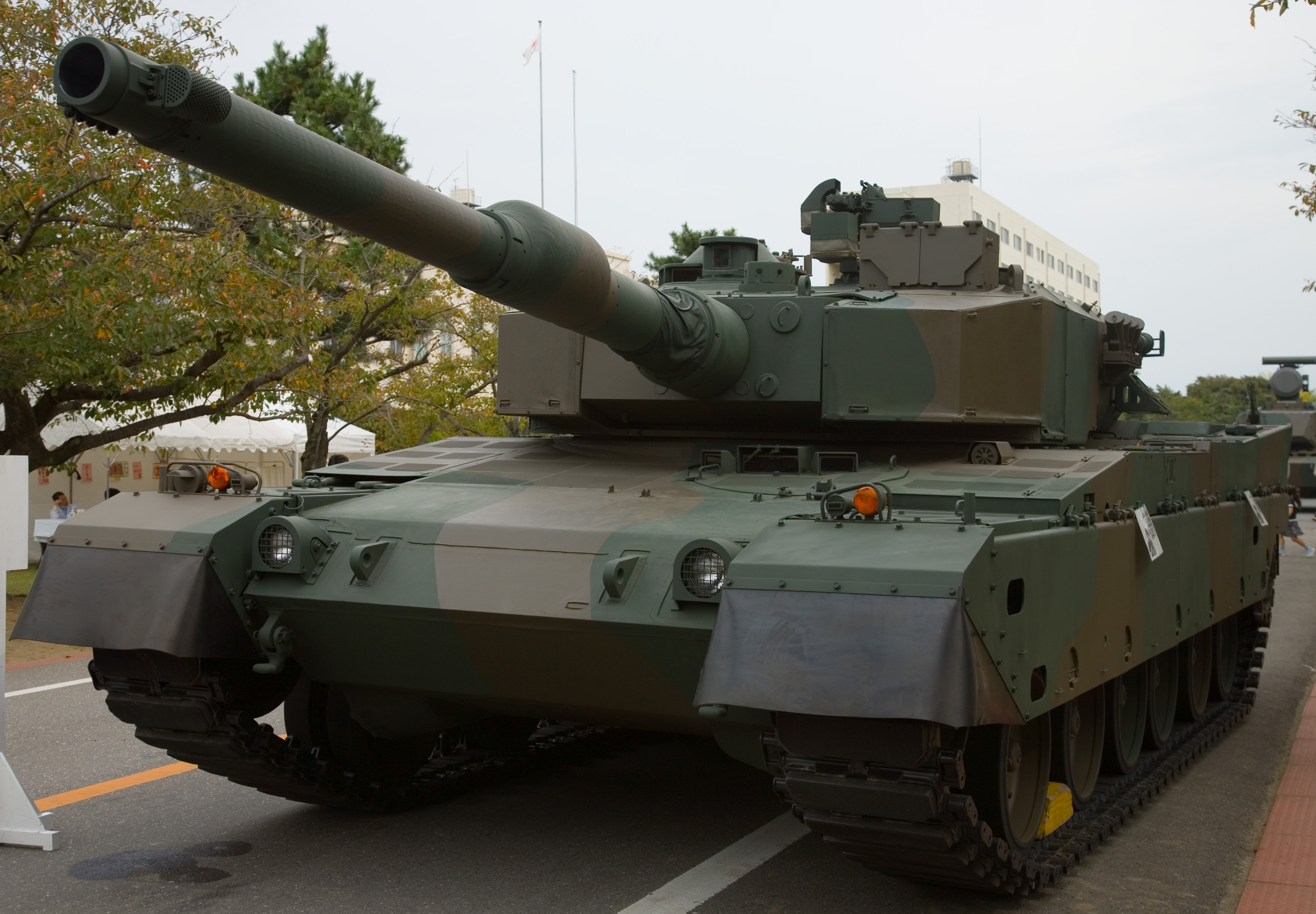 A Japanese Type 90 Main Battle Tank at the JGSDF Ordnance School in Tsuchiura, Kanto, Japan.